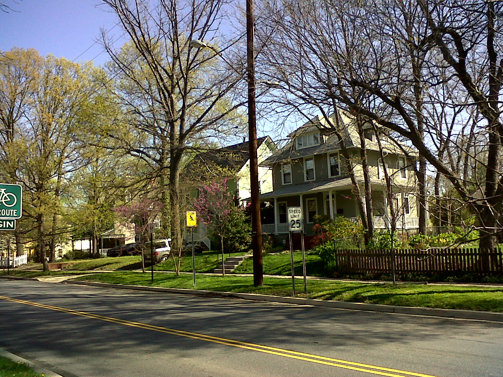 Takoma Park Historic District, which located in Takoma Park, Maryland and is listed on the National Register of Historic Places